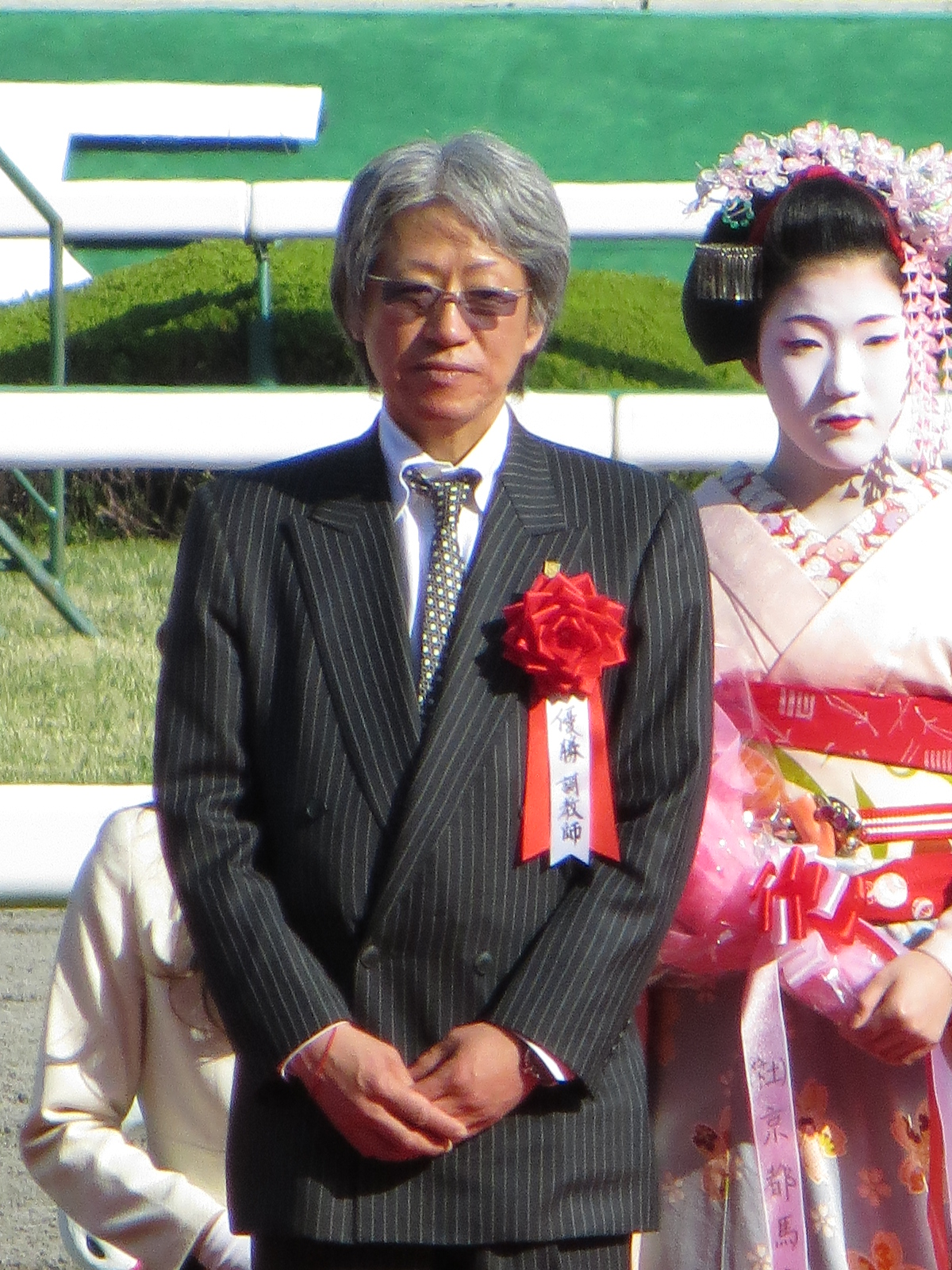 Hirofumi Toda (Fenomeno's trainer) from 147th Tenno Sho spring.